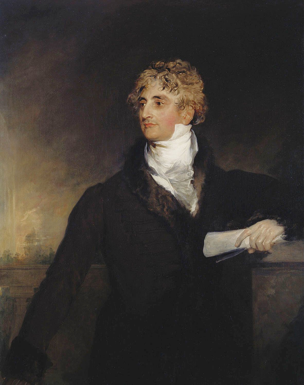 "This portrait was commissioned by George IV and was painted in 1818 at Aix-la-Chapelle, though it remained in Lawrence's studio until his death. The portrait seems to have always been intended for what became the 'Waterloo Chamber' and acknowledges the sitter’s role as Prime Minister of France (1815-18) at the Treaty of Aix-la-Chapelle and friend of the Russian Tzar, whom he had served with extraordinary distinction during his exile from France from 1803 until 1814. Richelieu was especially responsible for the expansion of the city of Odessa during his time as Governor there: the famous steps are surmounted by a statue in his honour. "